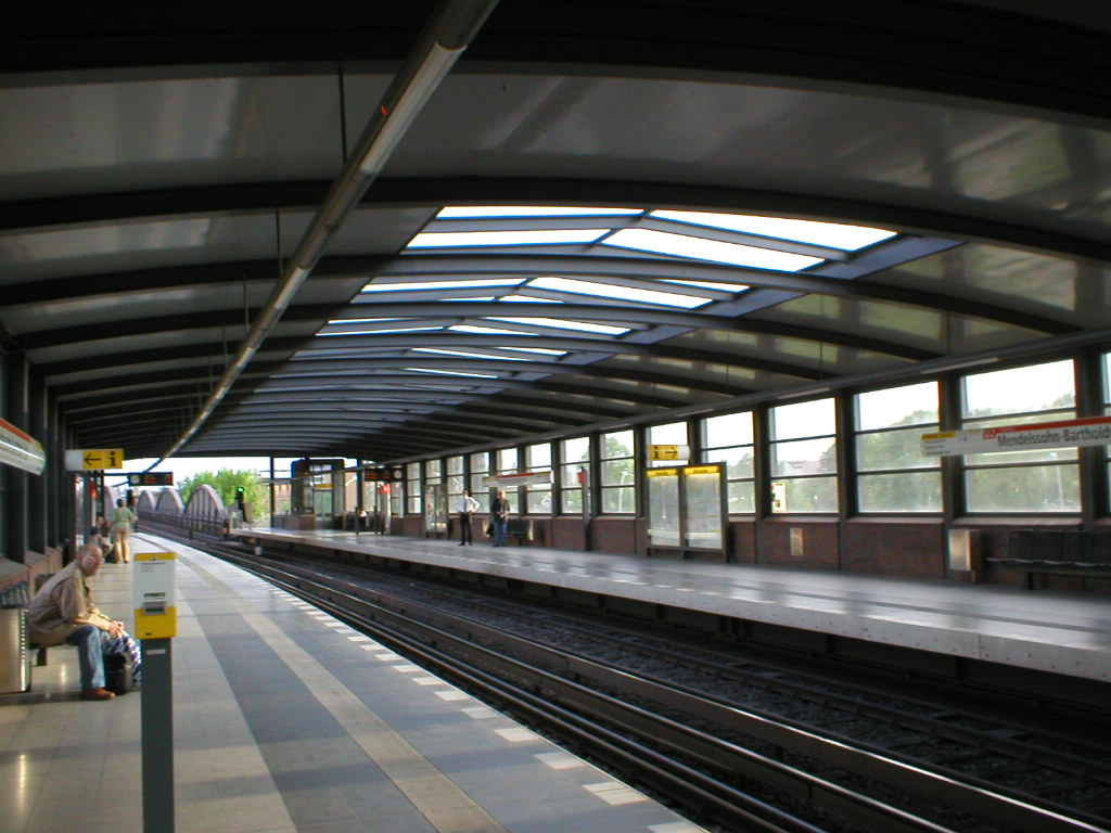 Berlin's underground station Mendelssohn-Bartholdy-Park (line U2)